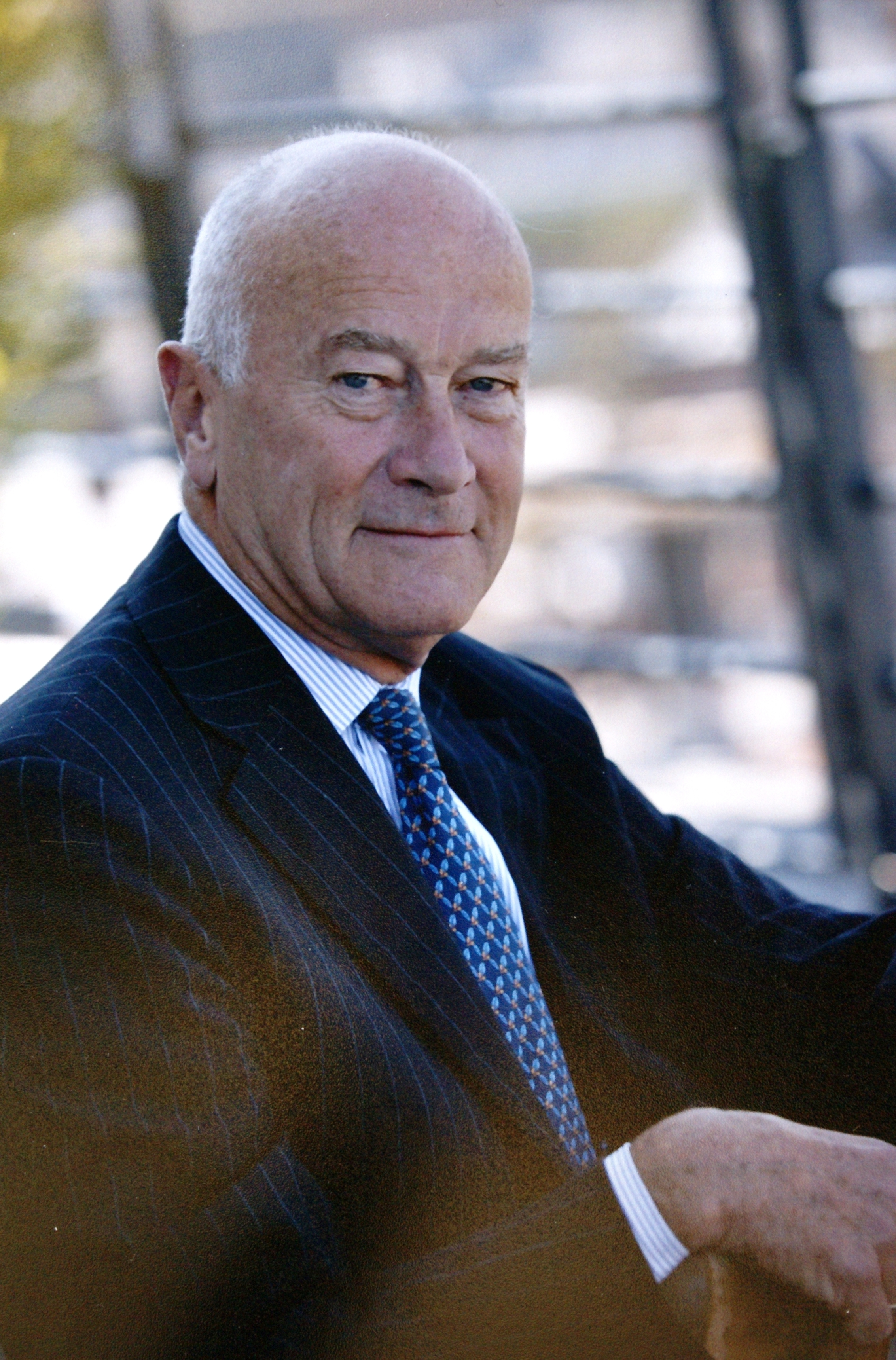 Jean-Pierre De Bandt, Belgian sollicitor